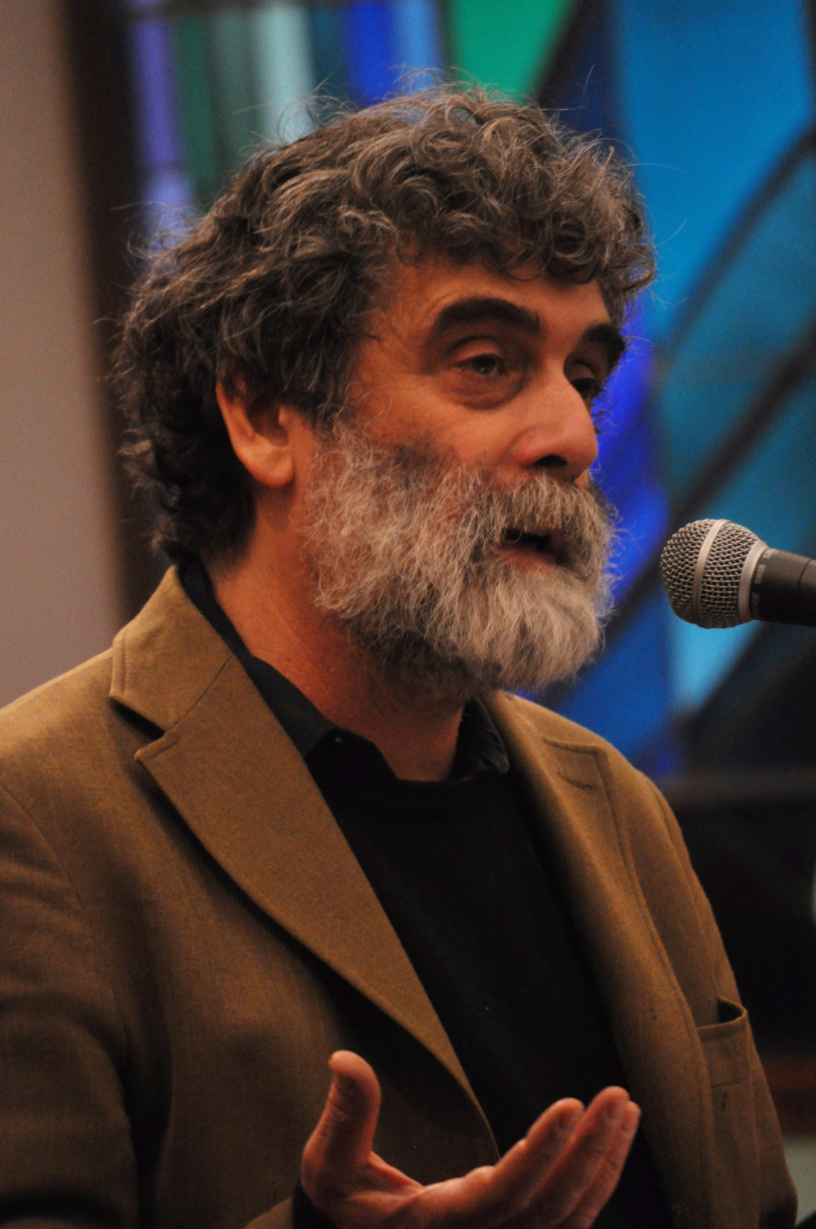 American-born Israeli historian, journalist and blogger Gershom Gorenberg speaking at Temple De Hirsch Sinai, Seattle, Washington, USA.